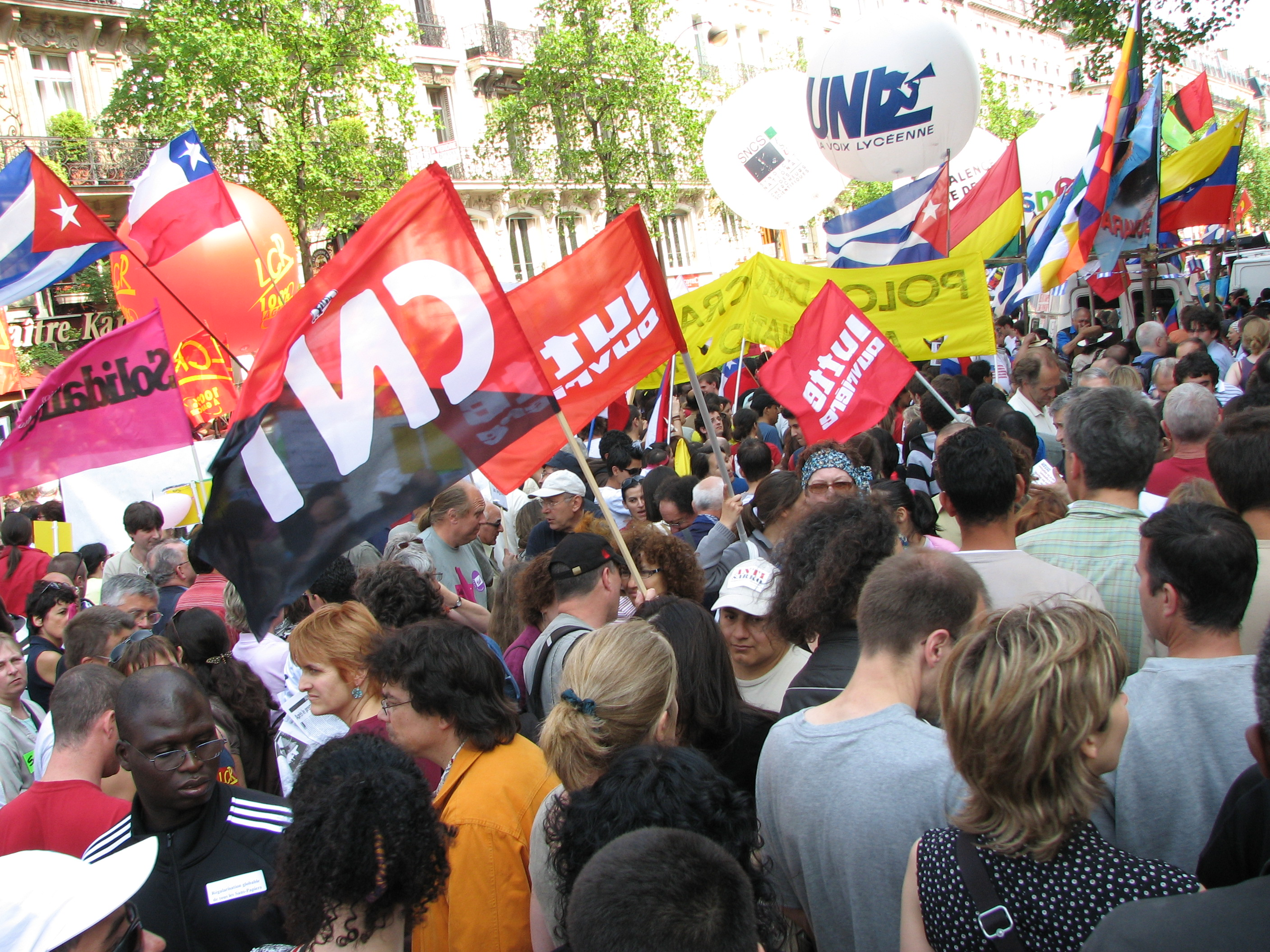 Various leftist groups during the May 1, 2007, marches